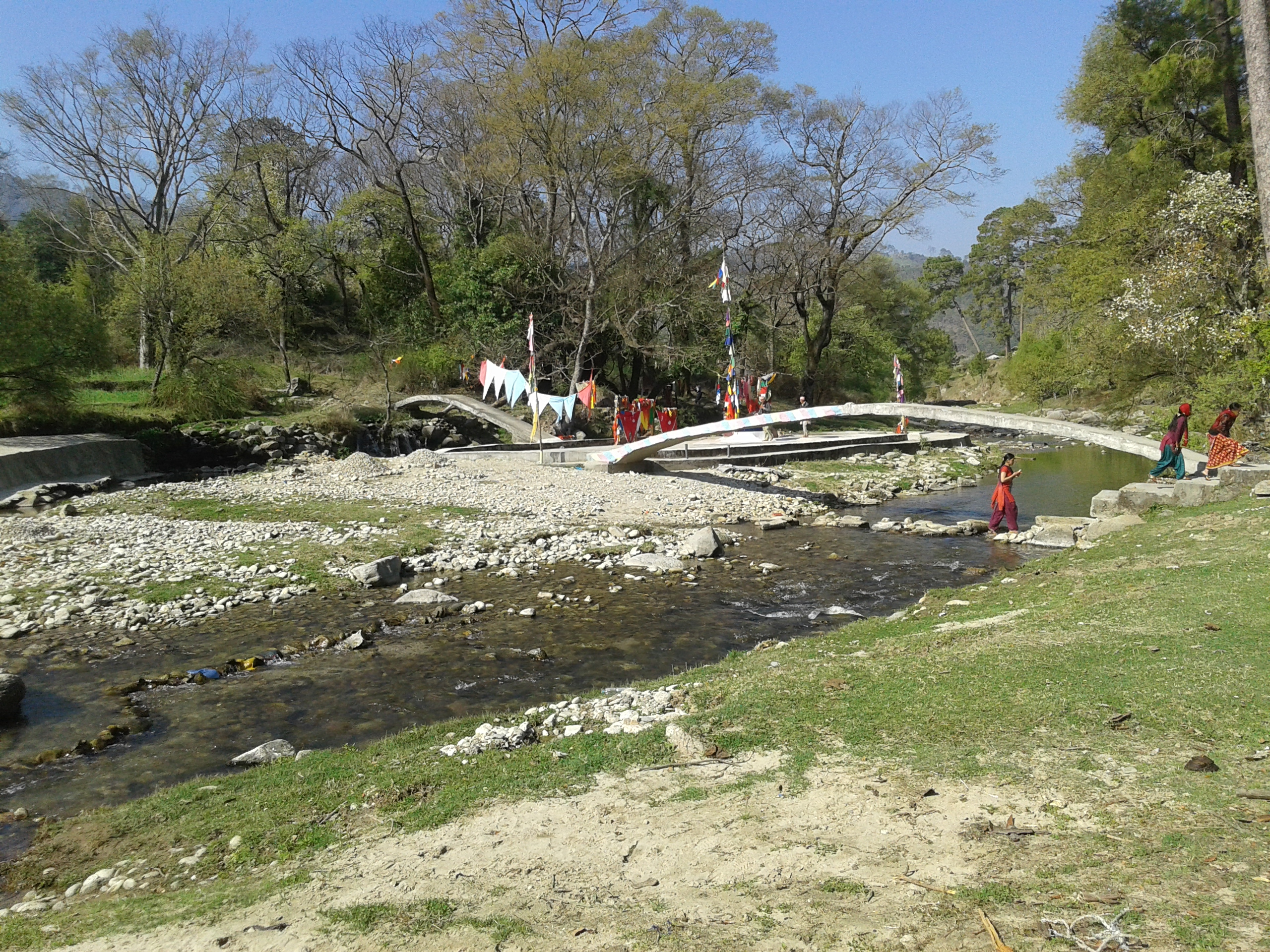 This picture shows the natural environment that surrounds Ghatal Thaan, a religious place in Dadeldhura district of Nepal. Hindu worship Ghatotkacha here.